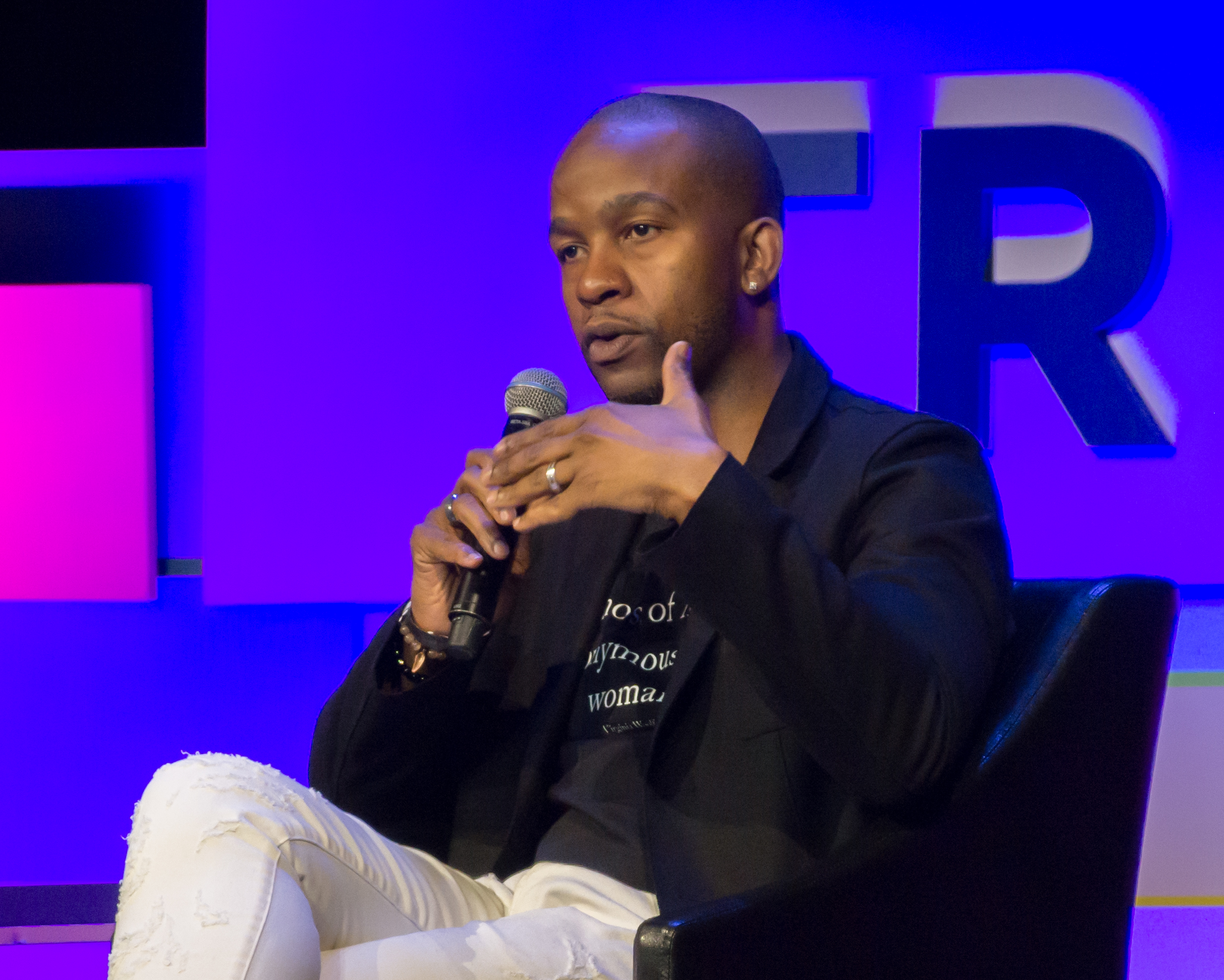 Time's Up event at the 2018 Tribeca Film Festival (Tribeca Talks: Time's Up). A series of talks/performances about Time's Up/sexual harassment. Wade Davis talks about men in the Time's Up movement.